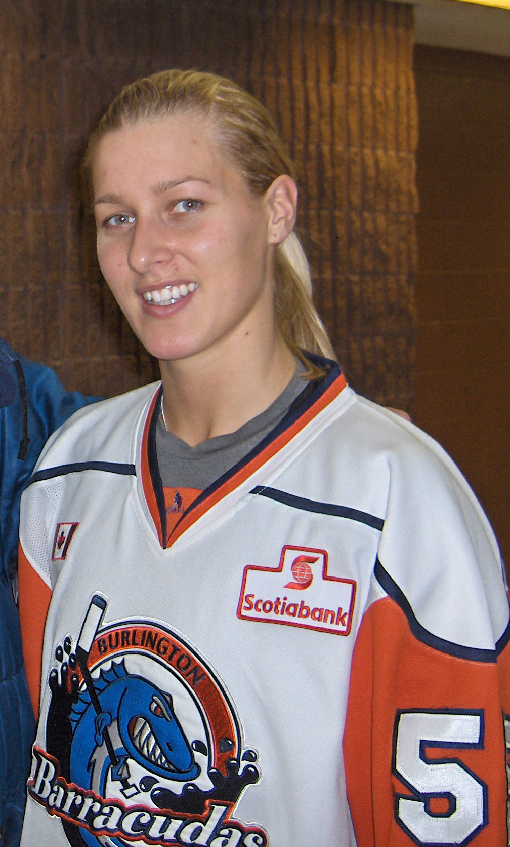 Danijela Rundqvist, Burlington Barracudas CWHL